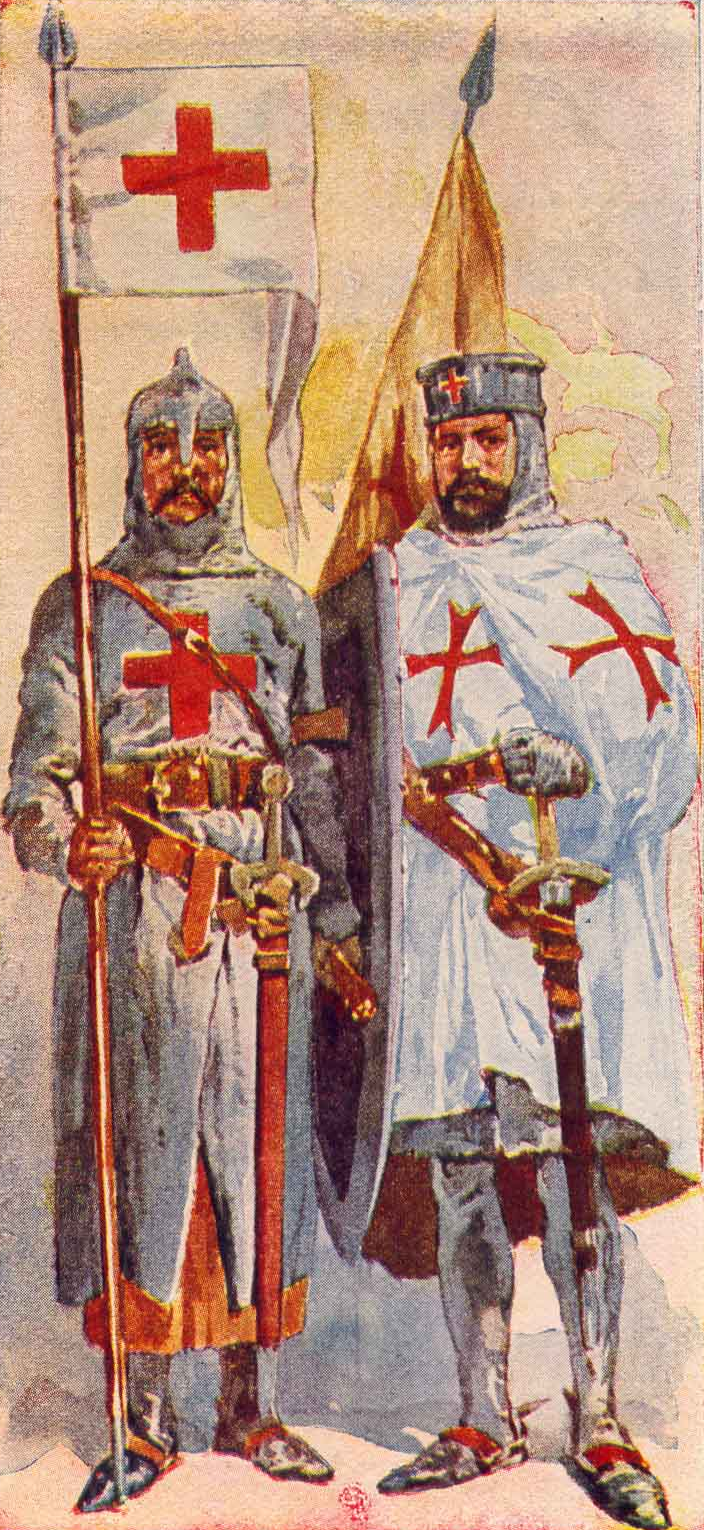 "Crusader and Templar", by Roque Gameiro, in Quadros da História de Portugal ("Pictures of the History of Portugal", 1917).